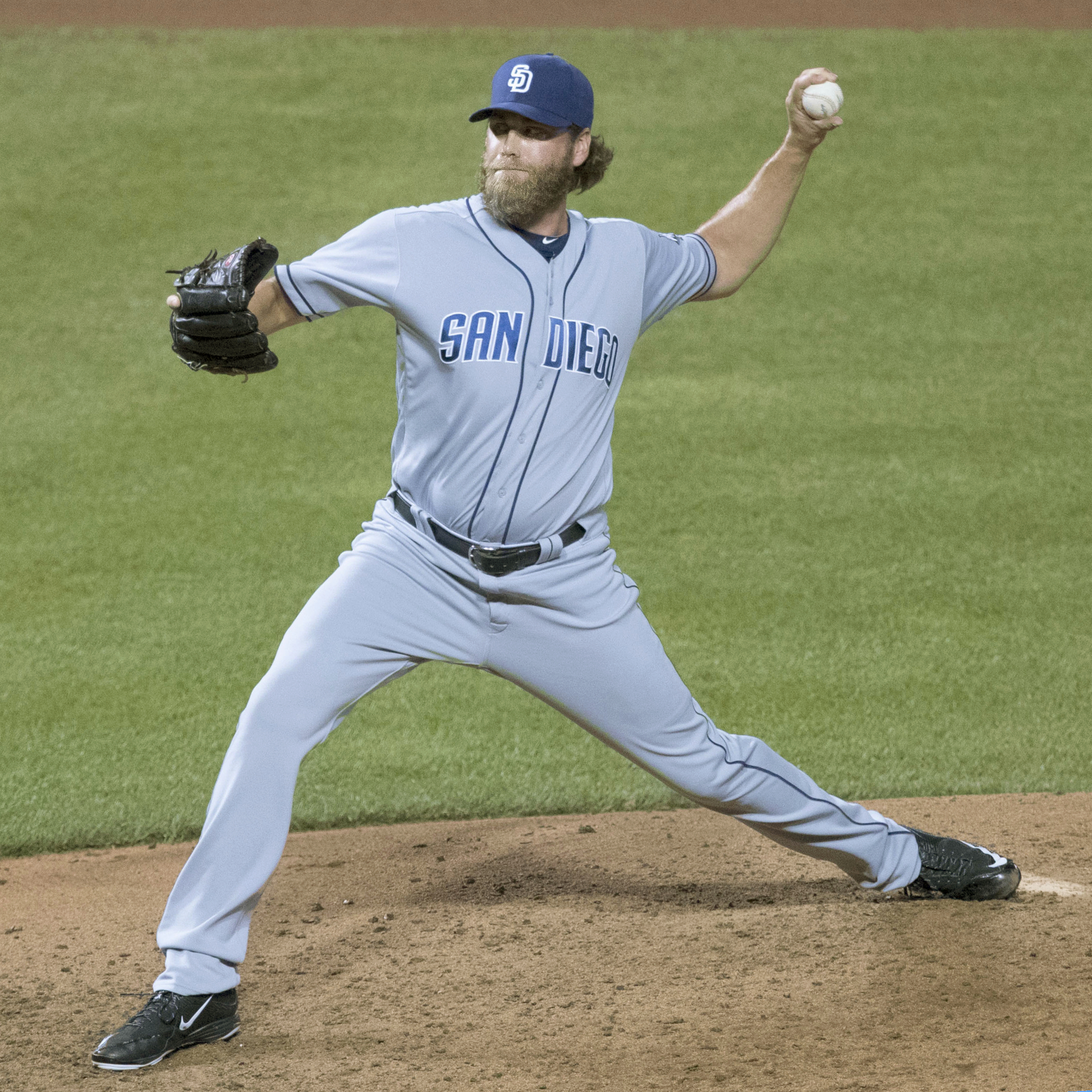 Matt Thornton